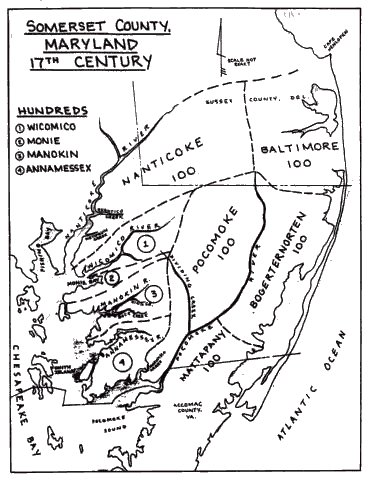 A map of the original 'hundreds' layout of Somerset County, Maryland colony, in or about 1669